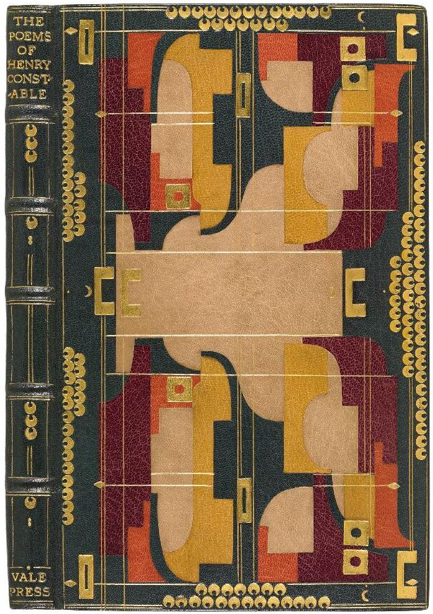 The queen of Art Deco binding. English, 1930. Sybil Pye (1879–1958). Blue-green morocco inlaid with leathers of different colours. Back turn-ins signed with Pye's device and dated 1930. Sybil Pye was a self-taught binder who developed a highly original style, giving prominence to the technique of inlay. Her use of colour combined with the Art Deco style made her bindings highly collectible by the greatest bibliophiles of the pre-war period (and ever since).